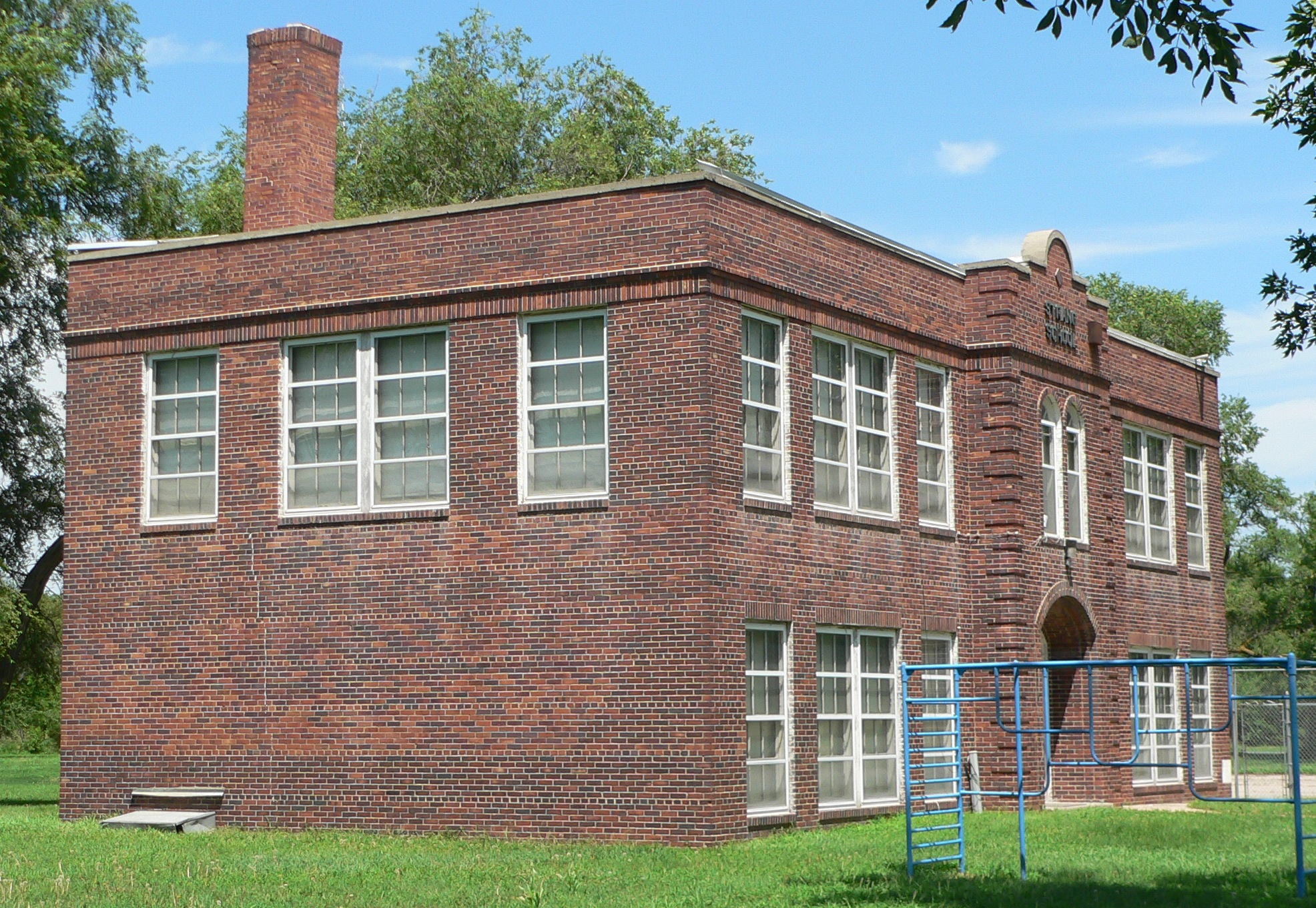 Strang School District No. 36 in Strang, Nebraska; seen from the southeast. The Renaissance Revival building was constructed in 1929. It is listed in the National Register of Historic Places. The playground equipment is part of the historic-site listing.